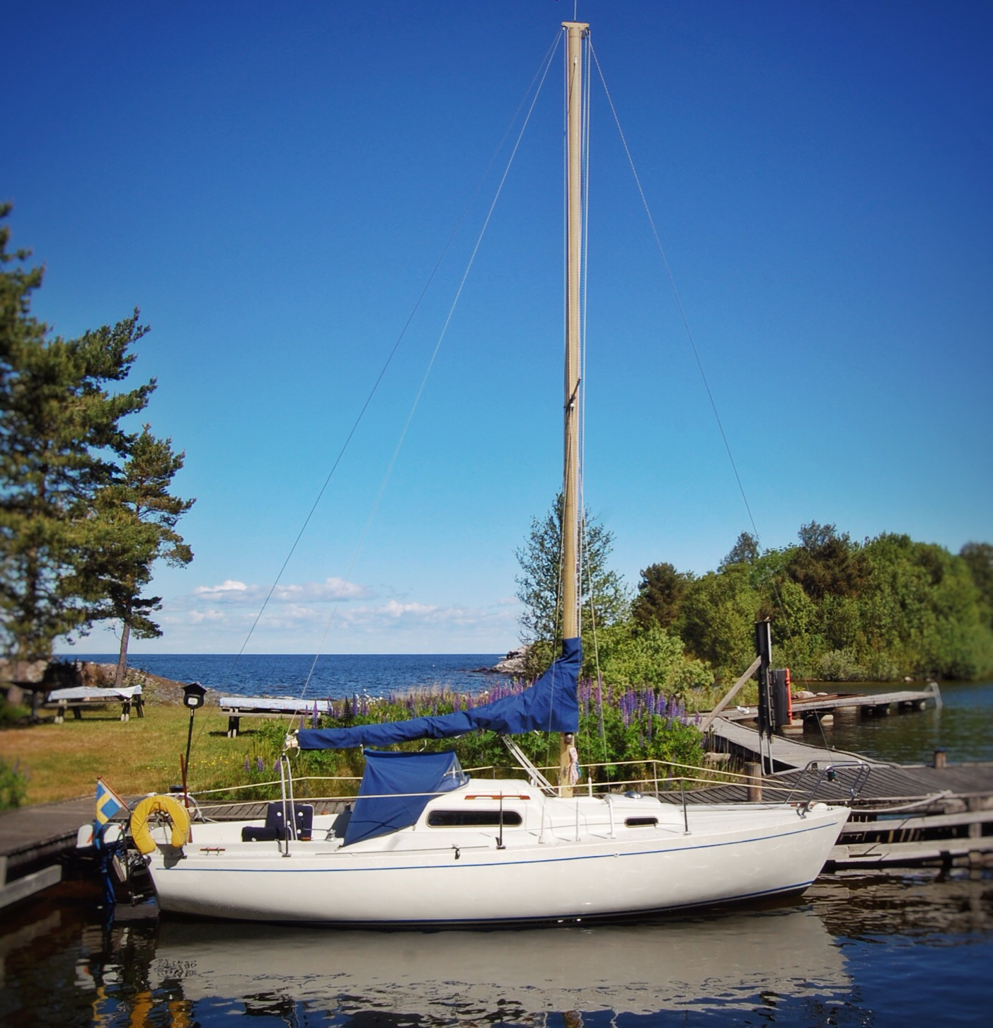 Swedish "Albin Viggen" Sailboat -1972